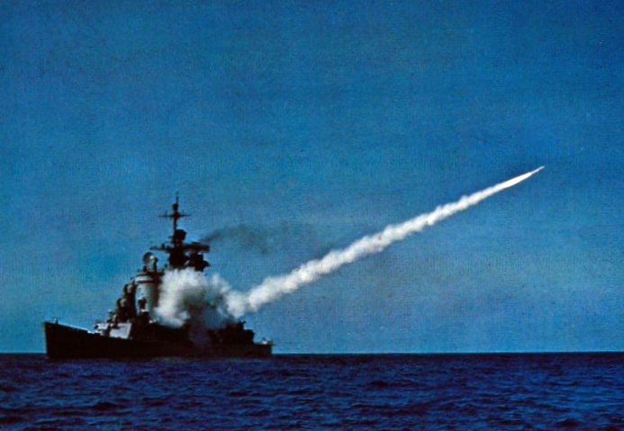 Launch of an RIM-24 Tartar missile from the U.S. Navy guided missile cruiser USS Chicago (CG-11).